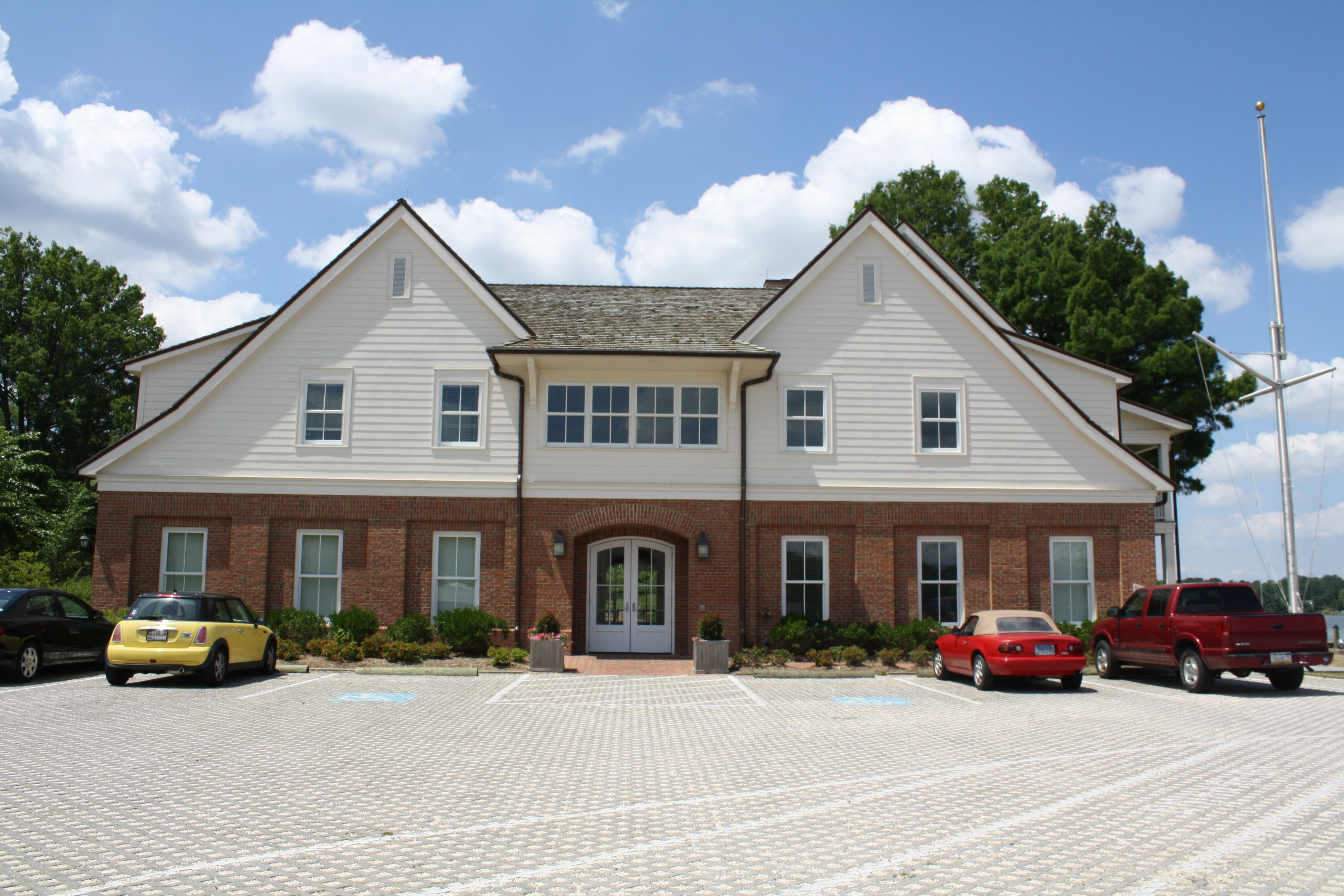 St. Mary's College of Maryland, side of the Muldoon River Center. Houses marine biology labs and sailing team.Photo, Elvert Barnes, June 14, 2011.